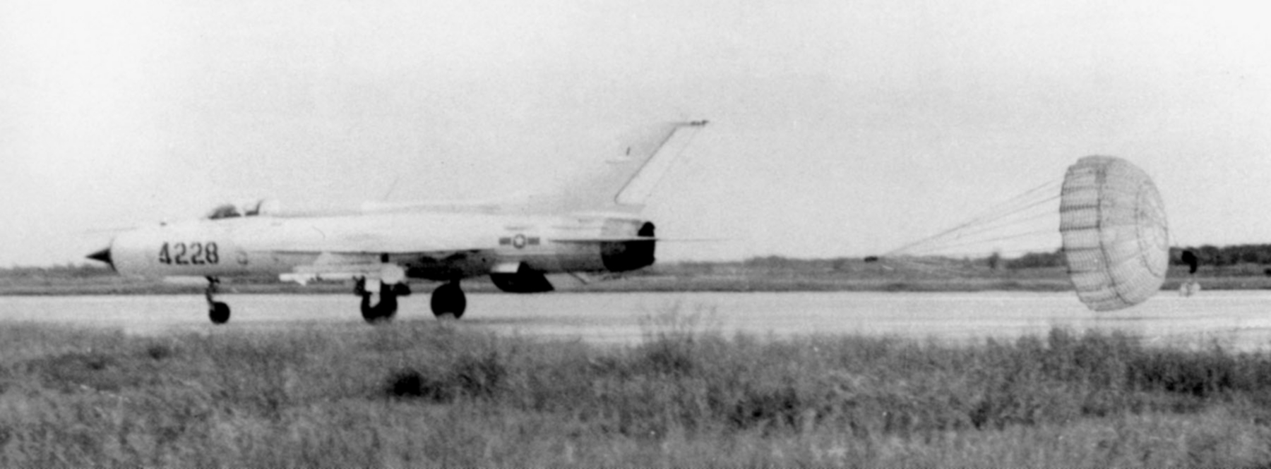 A Vietnamese People's Air Force Mikoyan Gurevich MiG-21PF deploying its braking chute while landing after a mission. The aircraft is armed with AA-2 Atoll air-to-air missiles.